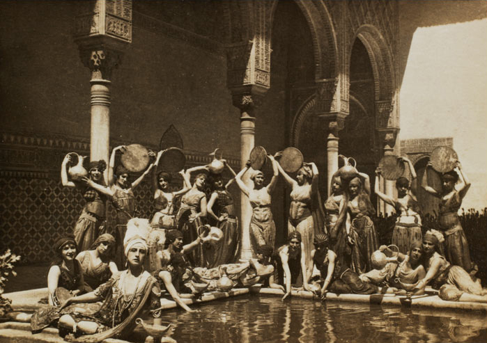 Dancers of the Ballets Russes' production Scheherazade posing at the Alhambra palace in Granada, Spain, May 1918.